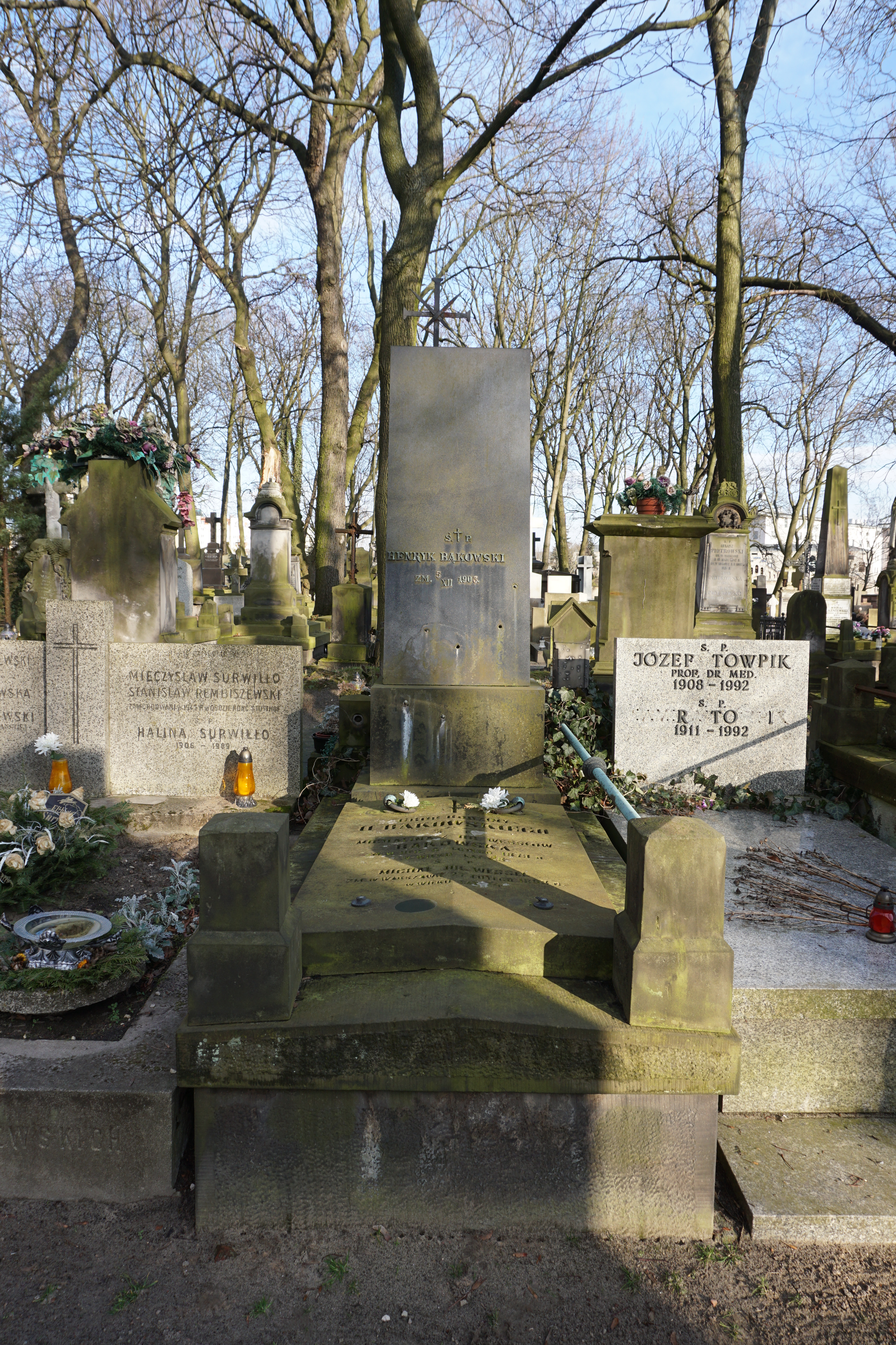 The grave of Henryk Bąkowski at the Powązki Cemetery (section 164, row 6, grave 10)